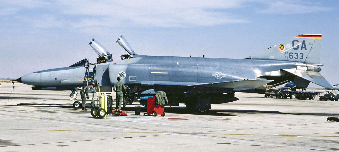 20th Fighter Squadron Lufwaffe F-4E Phantom II 75-0633 is readied for an air-to-ground sortie in 1991. All Luftwaffe F-4Es featured the TISEO housing, however, the equipment was not installed.